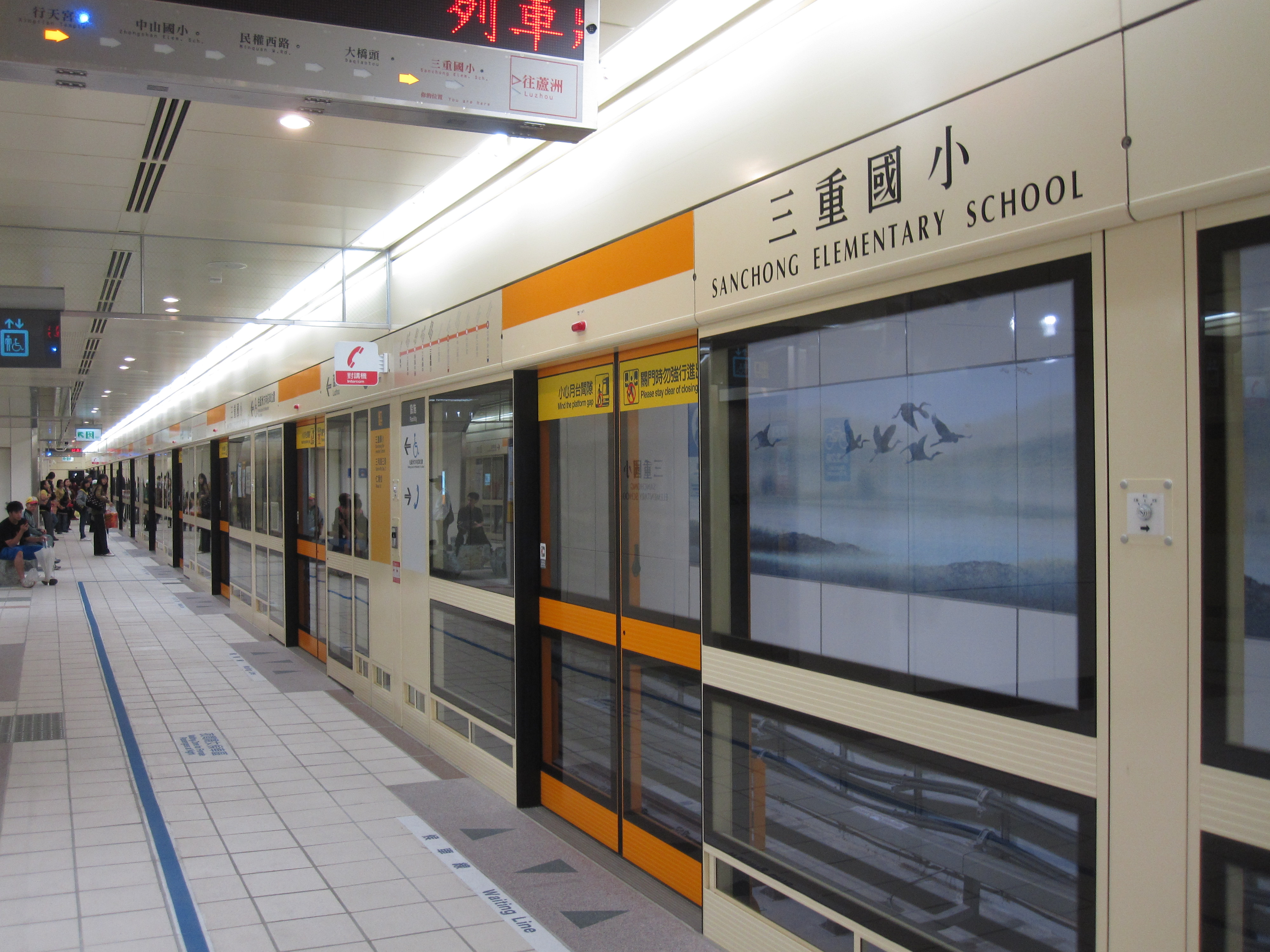 Sanchong Elementary School Station Platform 1